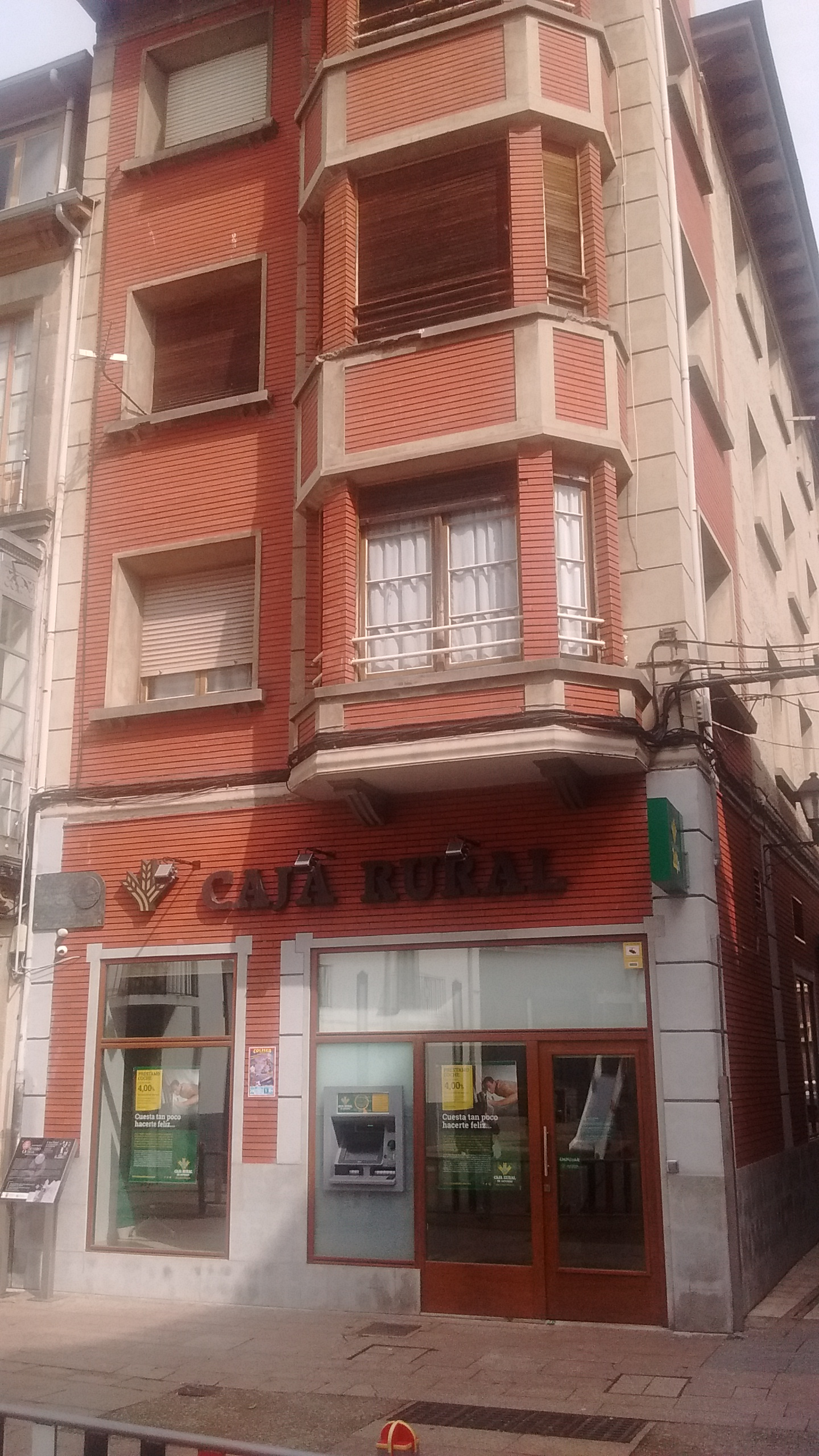 Casa en la que nació Severo Ochoa, en Luarca.